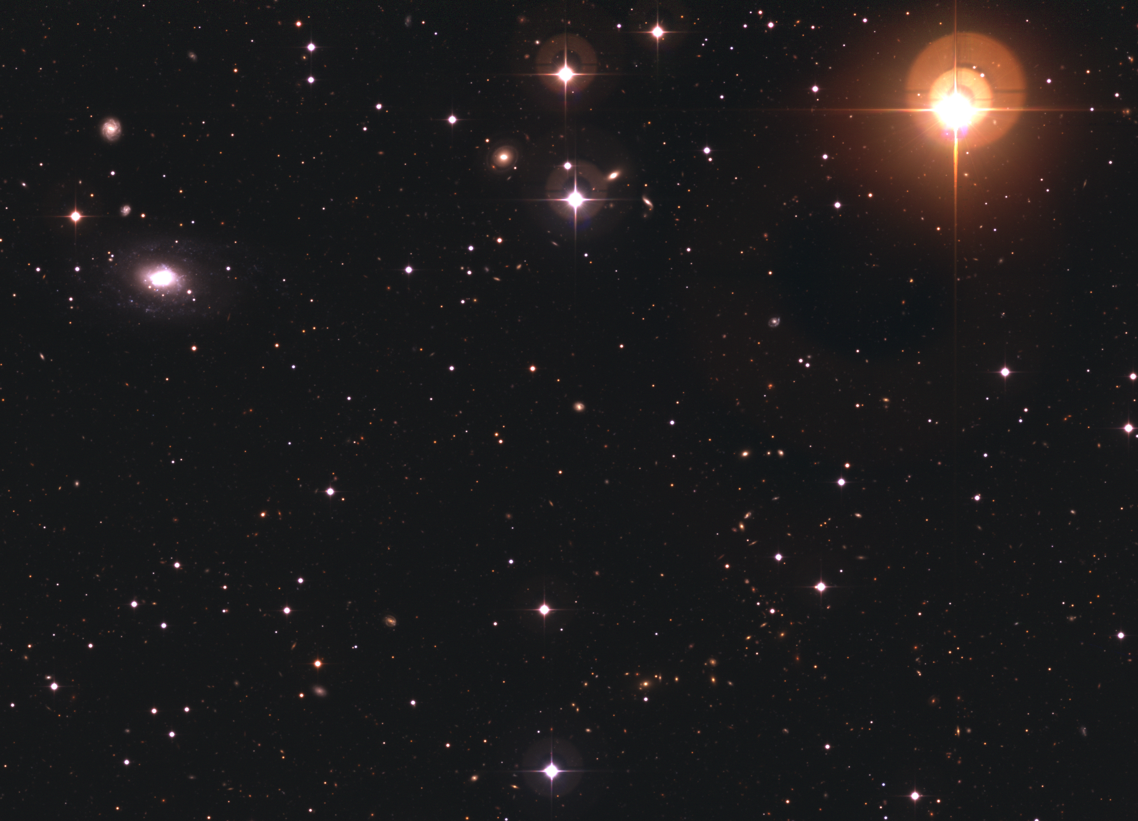 Part of the Deep 3 Deep Public Survey field, showing the brightest galaxy in the field ESO 570-19 (upper left) and the brightest star UW Crateris. This red giant (upper right) is a variable star that is about 8 times fainter than what the unaided eye can see. An 'S'-shaped ensemble of galaxies is also visible in the lower part of the picture. Imagine: all these island universes are about the same size as our Milky Way and contain billion of stars!